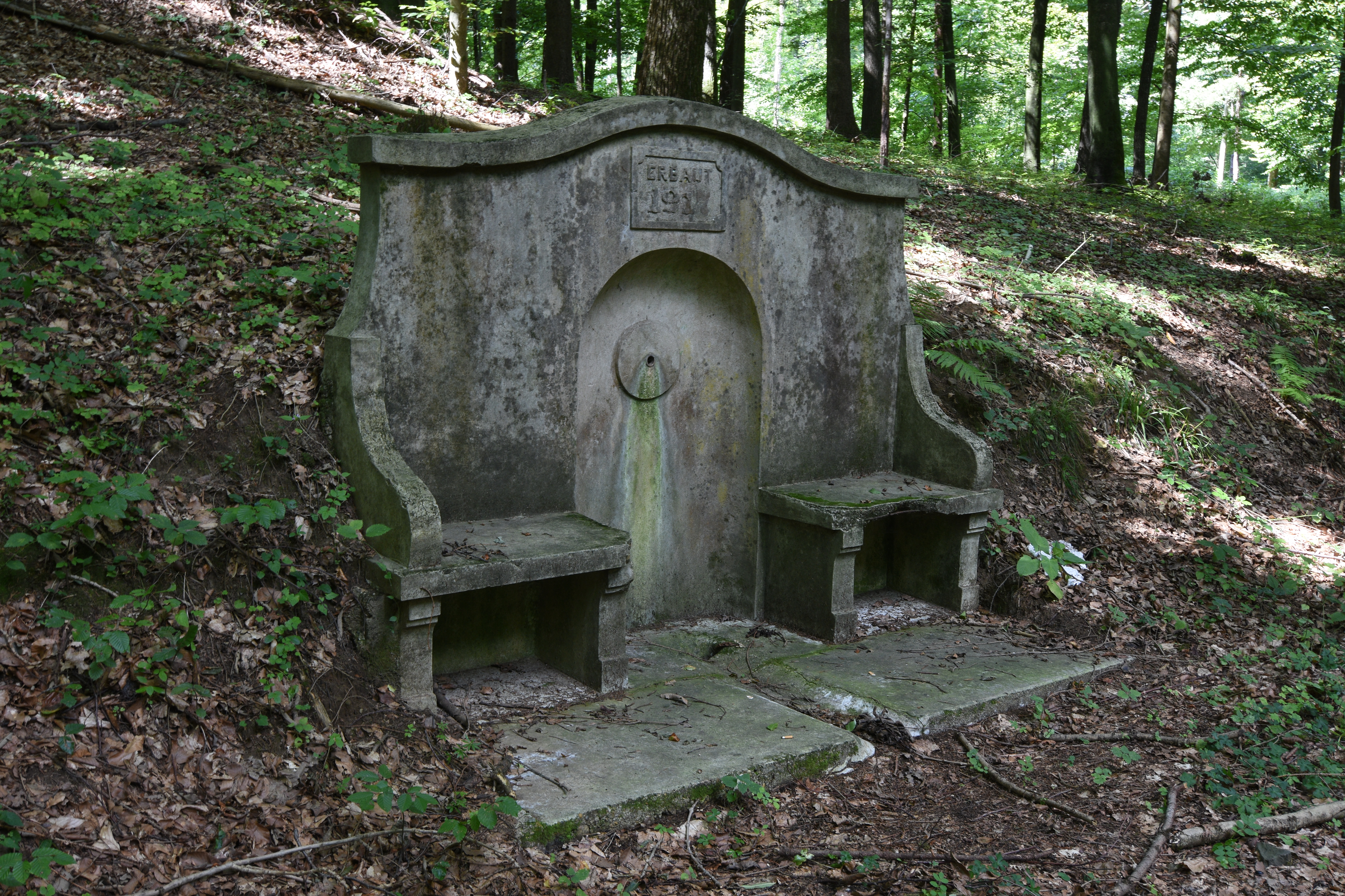 1917 built water well at the military narrow-gauge railway Steinberg, Feldbach, Styria.